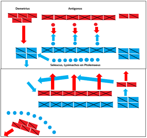 The battle of Ipsus.